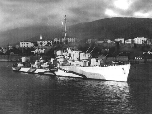 The British destroyer Lightning.